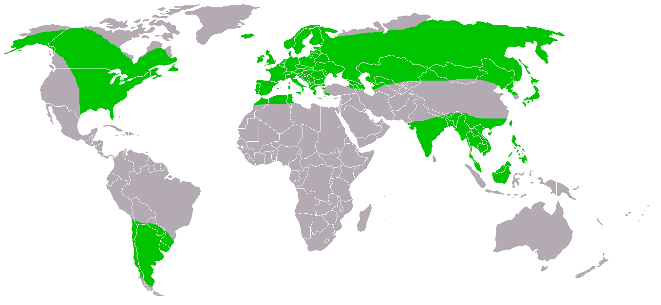 World distribution of short-eared owl (Asio flammeus).